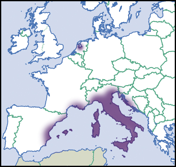 Milax nigricans (Philippi, 1836). Distribution in Europe, scientific state of knowledge of 2012. Source description in English. Light colour indicated rare occurrences or regions where the species could eventually be expected to occur. Dark colour indicated relatively reliable occurrences, as well as regions where the species was expected to occur, and where the species was not known to be extremely rare. Dark colour indications were not necessarily based on published records. Species summary in AnimalBase